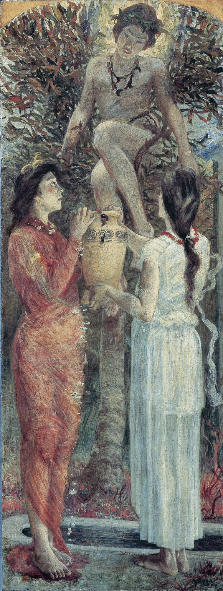 Paradise under the Sea by Aoki Shigeru, Ishibashi Museum of Art, Kurume, Fukuoka, Japan